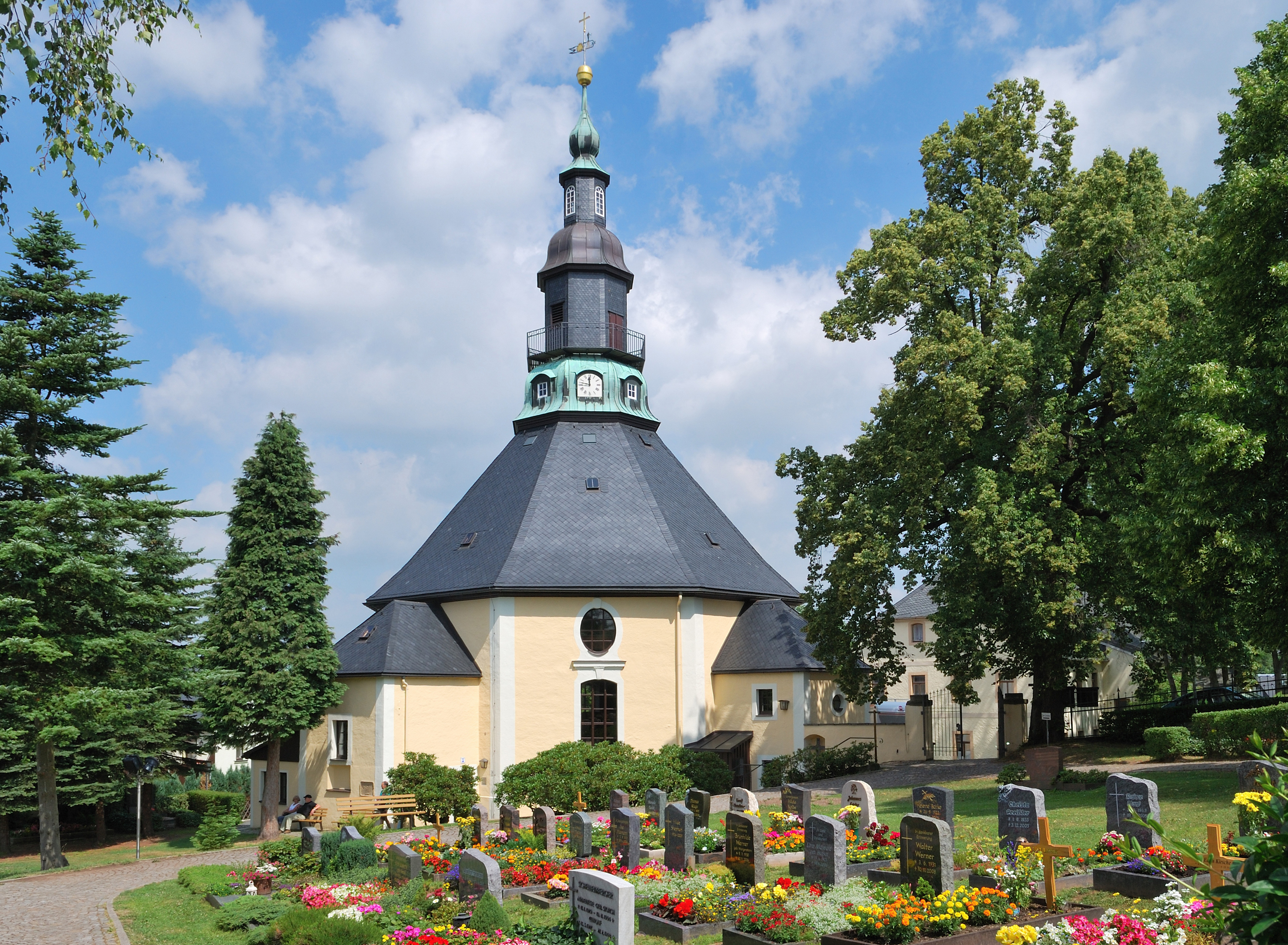 The church and the cemetery in Seiffen, a town in the heart of the Erzgebirge, or the Ore Mountains, in Saxony in Germany